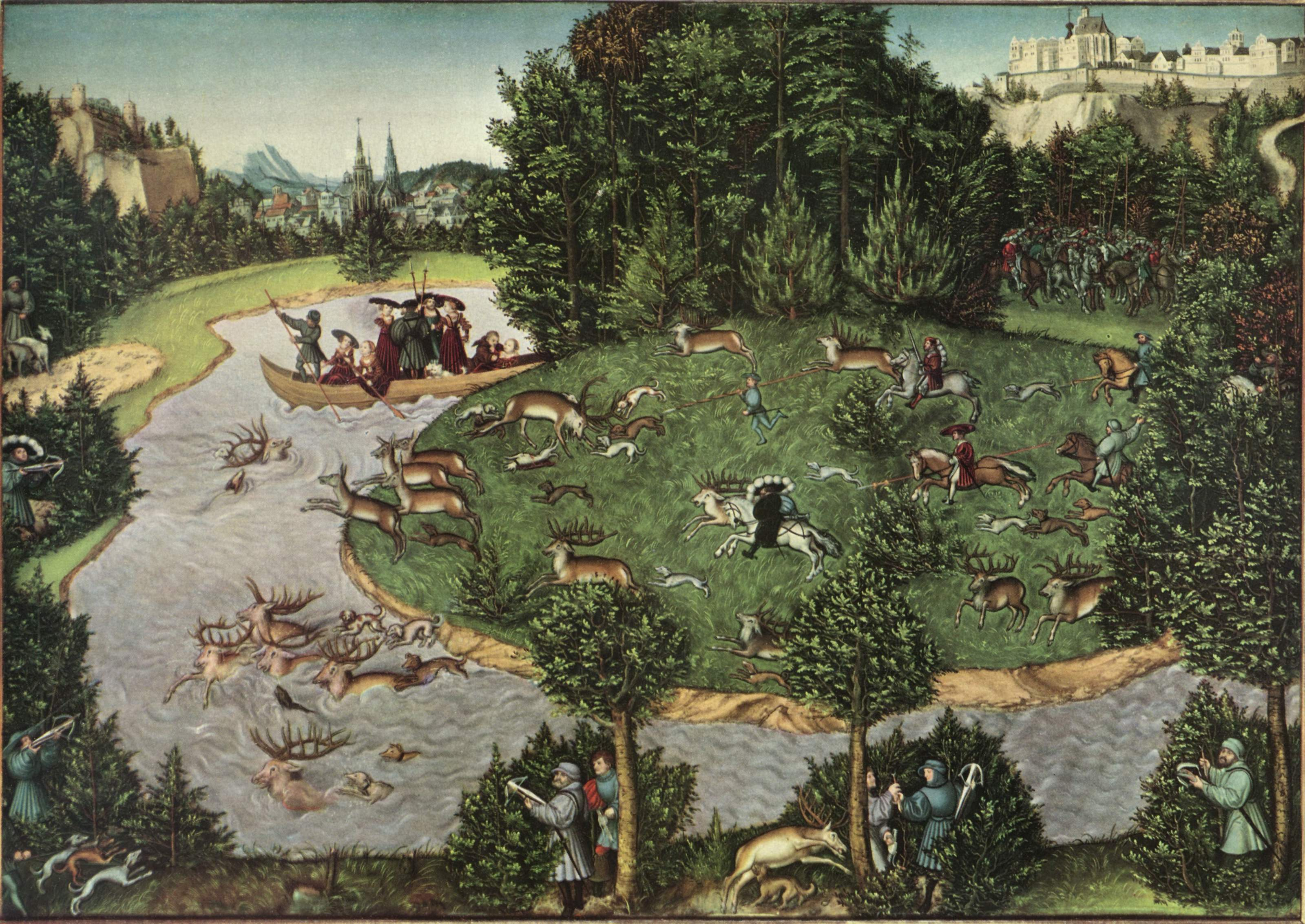 In the background there is a town and to the right a castle complex. In the centre of the foreground is the Elector Friedrich the Wise, further to the right is the Emperor Maximilian I. and on the far right Elector Johann the Steadfast. As neither the Elector Friedrich nor the Emperor Maximilian I. were still alive in 1529 it must be interpreted as a visual mementos commissioned by Johann the Steadfast to recall a hunt, which may have taken place in 1497 when both the Saxon princes were guests at Maximilian I.'s court in Innsbruck.